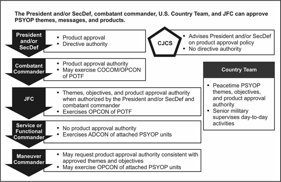 Work and approval flow for US military psychological operations